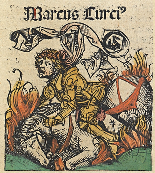 Woodcut from the Nuremberg Chronicle